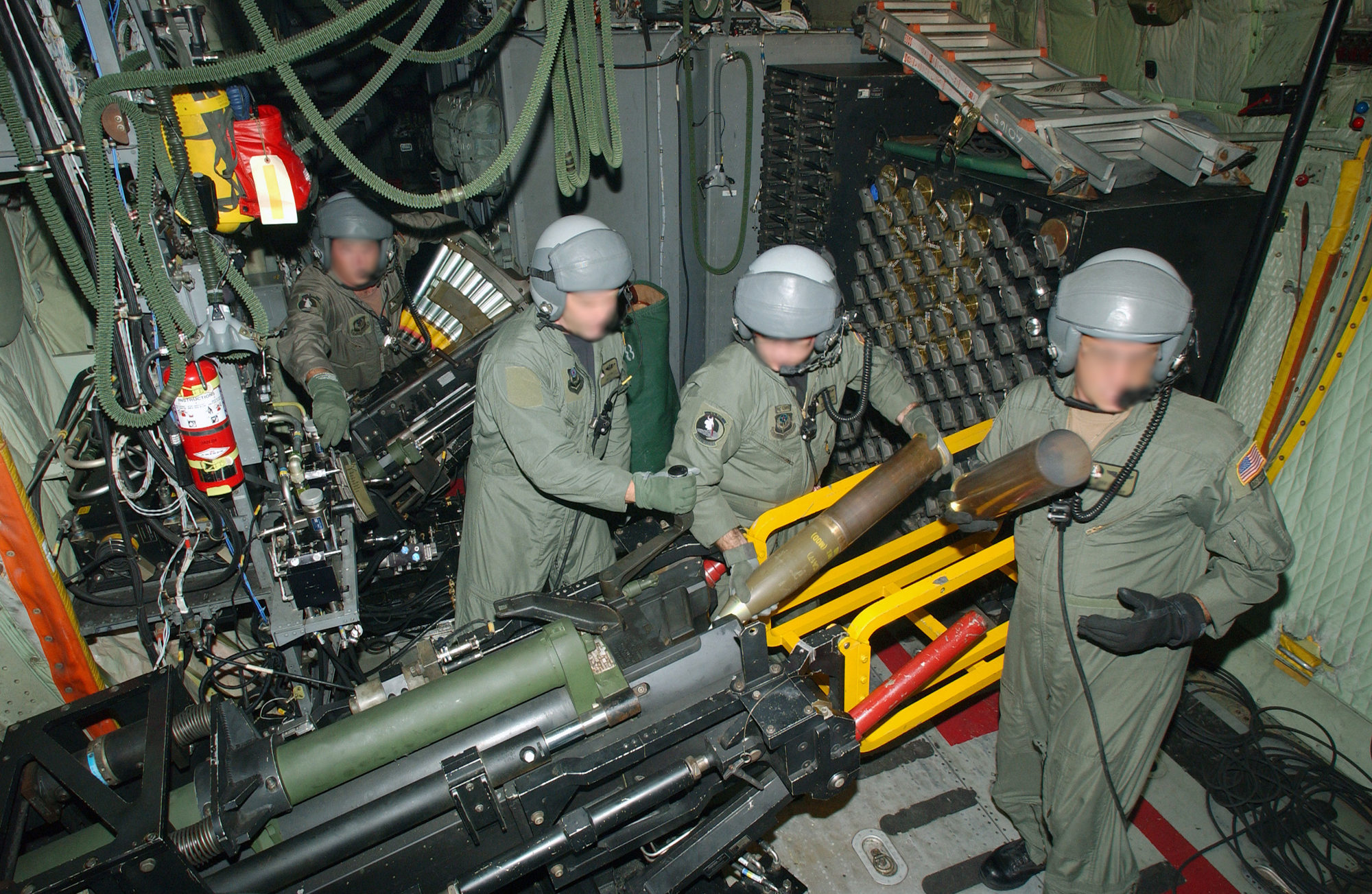 Aircrew members aboard an AC-130U Spooky gunship, 4th Special Operations Squadron, Hurlburt Field, Florida, load the 40 mm Bofors cannon (background) and 105 mm howitzer cannon (foreground) during a training mission.